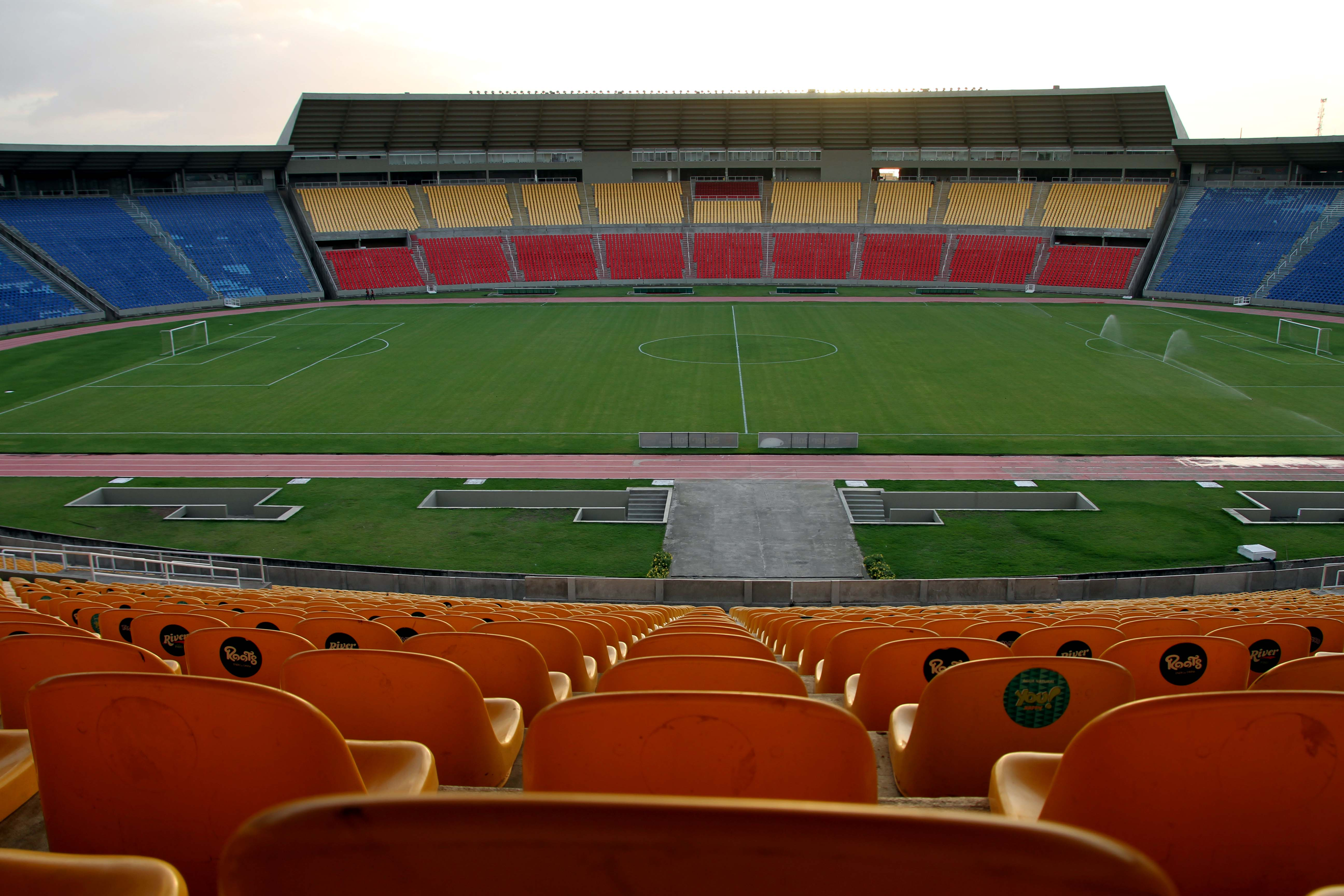 Estádio Castelão em São Luís, Maranhão, Brasil.